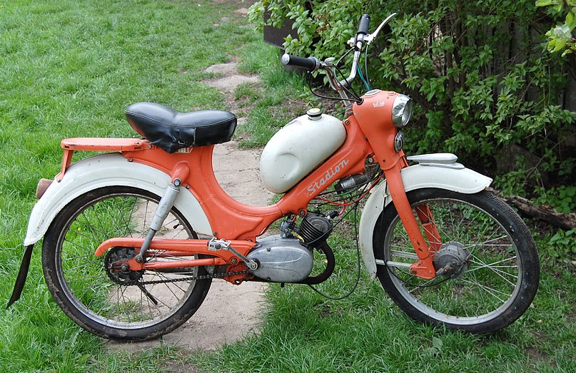 Moped Stadion S22 Česky: Moped Stadion S22